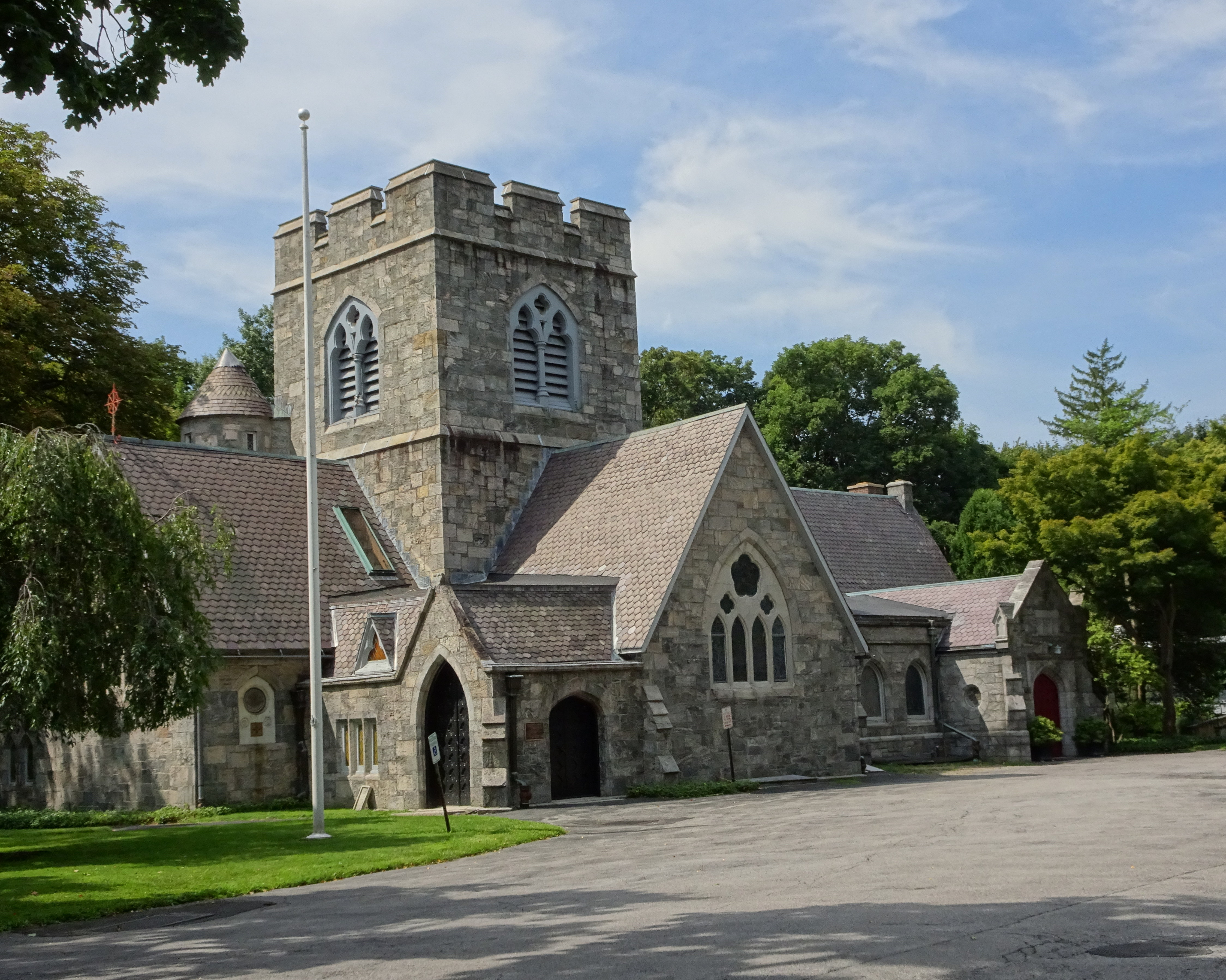 Looking north from Broadway at St Barnabas Episcopal Church on a sunny midday.